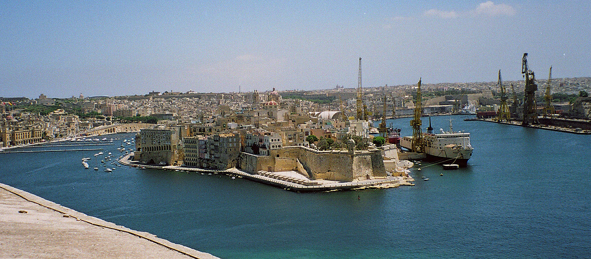 Valletta Harbour. Picture by Henry Trotter, 2003.